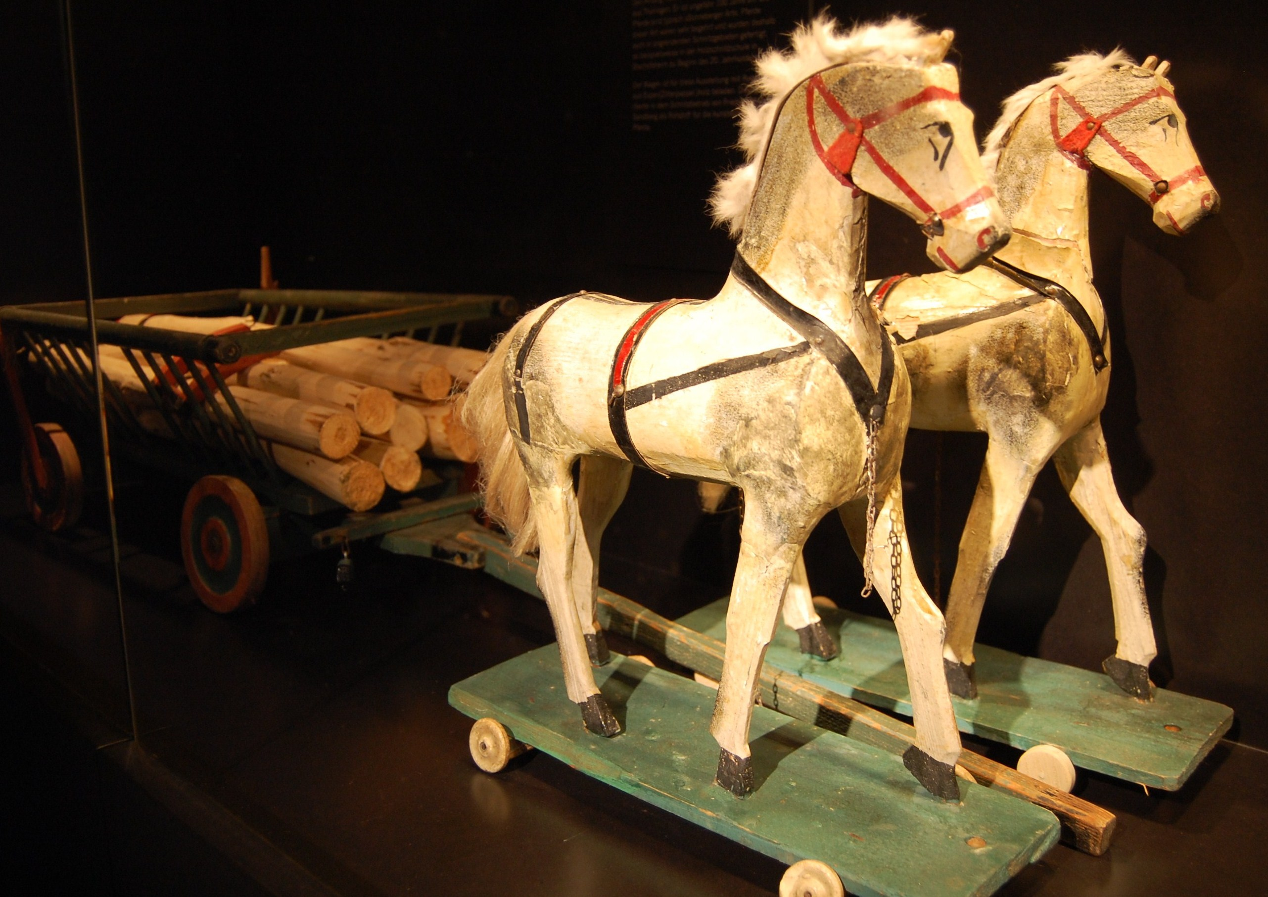 Wooden horse figurines, painted, made in Sonneberg, Thüringen; exposed in "Spielzeugwelt (Bad Kissingen)"